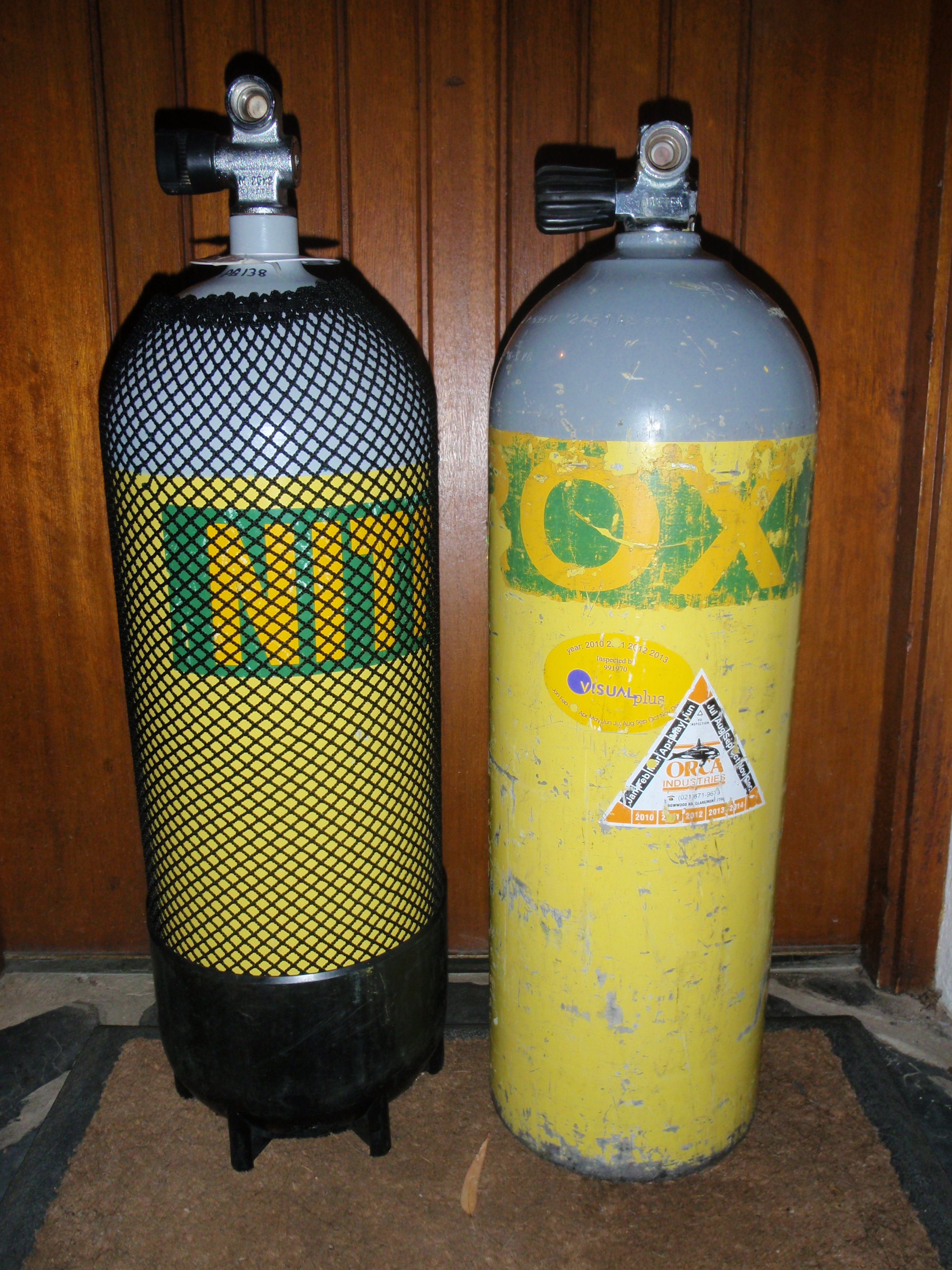 Steel and aluminium cylinders of similar external dimensions and mass